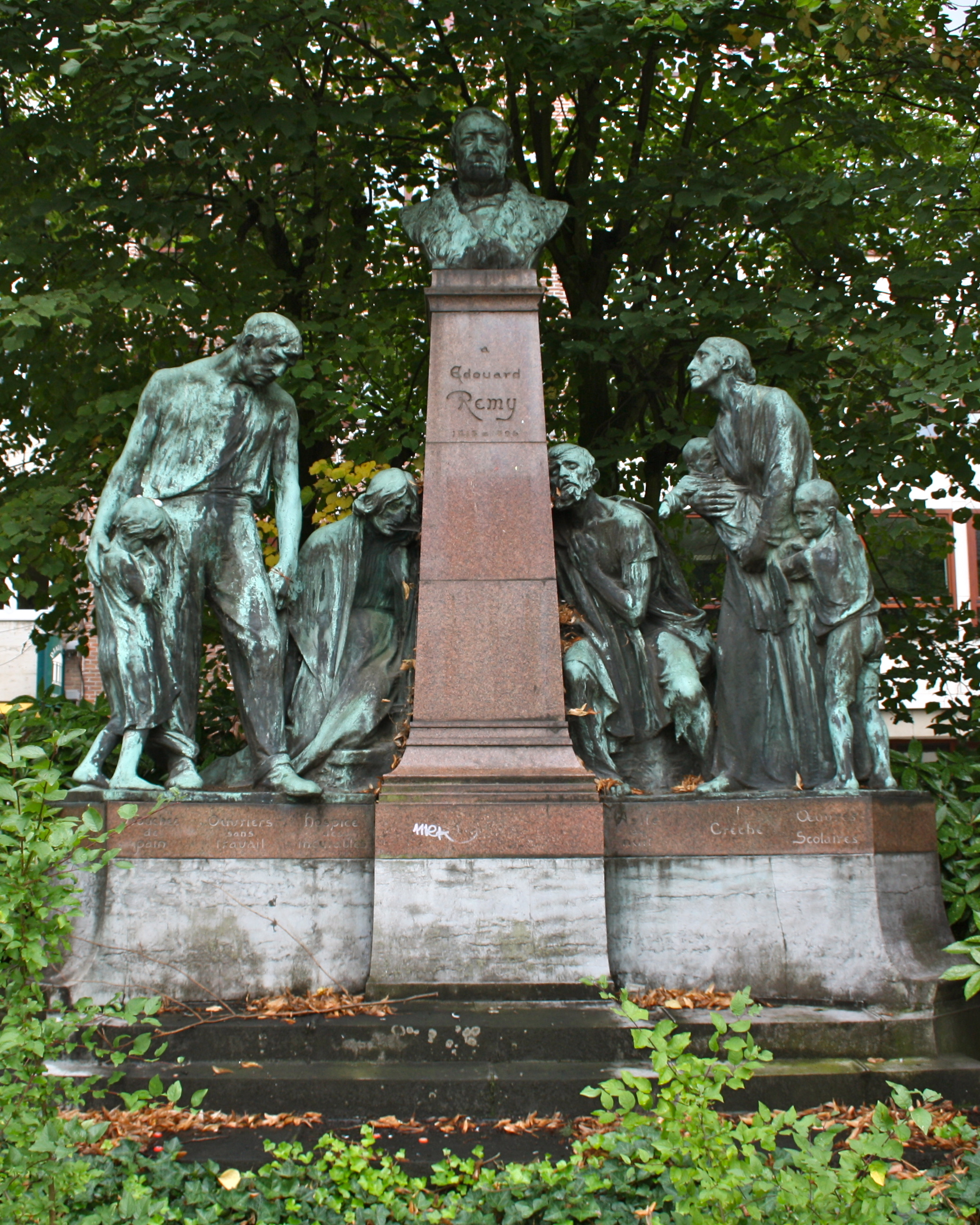 Bust of Edouard Remy in Leuven.